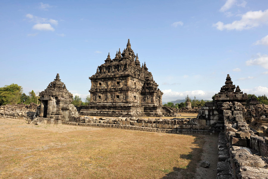 Candi Plaosan, Java